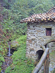 Nothing